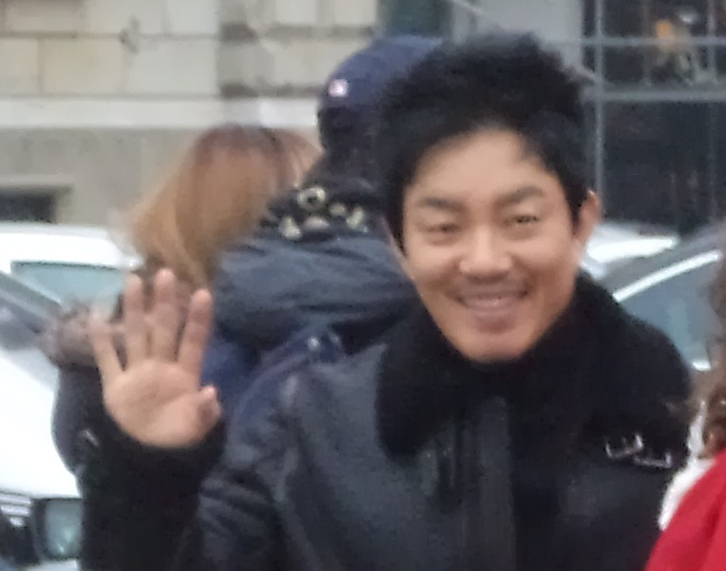 Lee Beom-soo at Iris 2 shooting in Budapest, Hungary